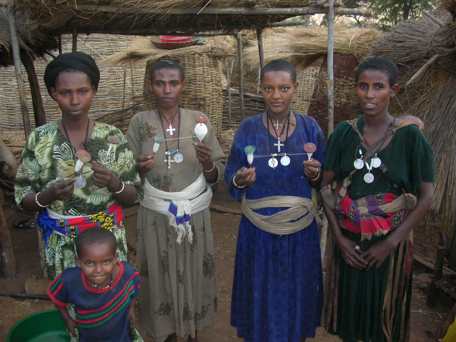 Agaw women of Ethiopia holding spindles for hand-spinning yarn, 2006